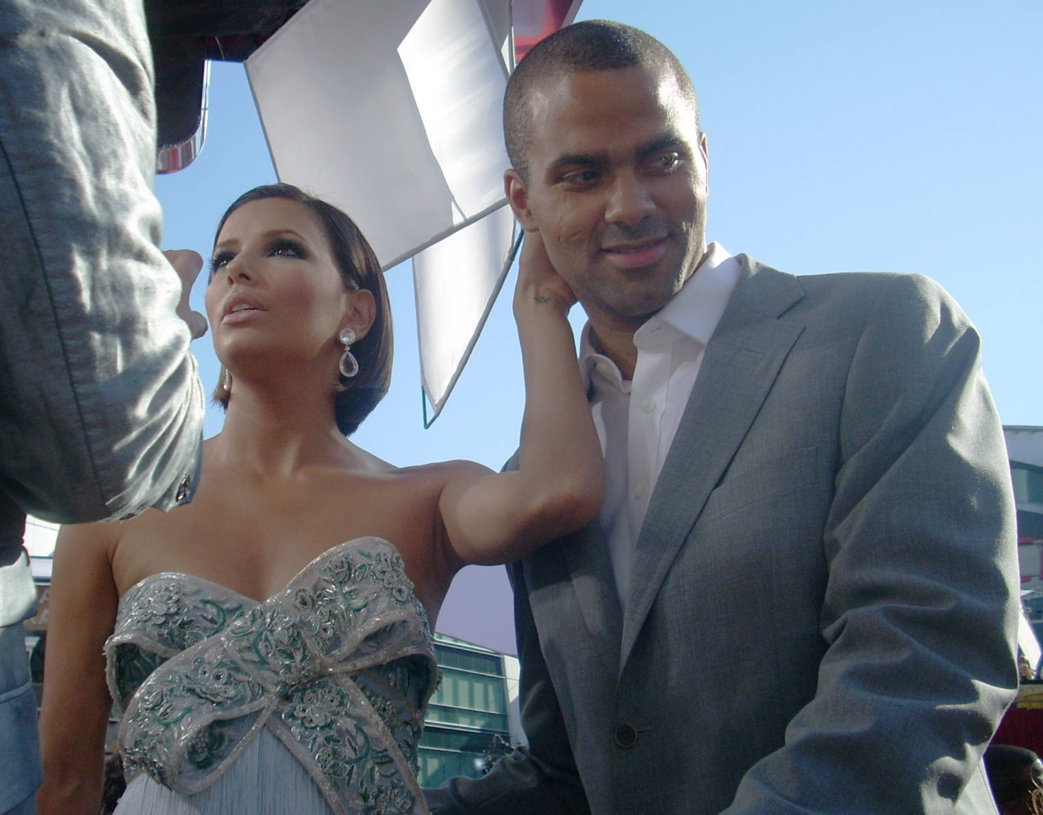 60th Annual Emmy Awards, Nokia Theater, Sept. 21, 2008